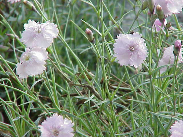 Species: Dianthus gratianopolitanus Family: Caryophylaceae Image No. 2